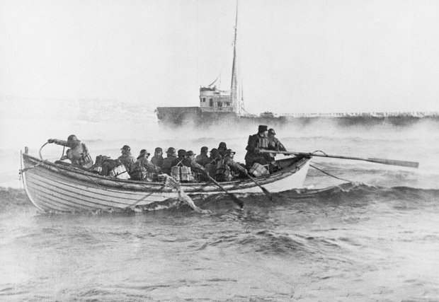 This image shows U.S. Lifesaving Service crew rowing out to rescue survivors of the SS Mataafa wreck, taken on November 29, 1905